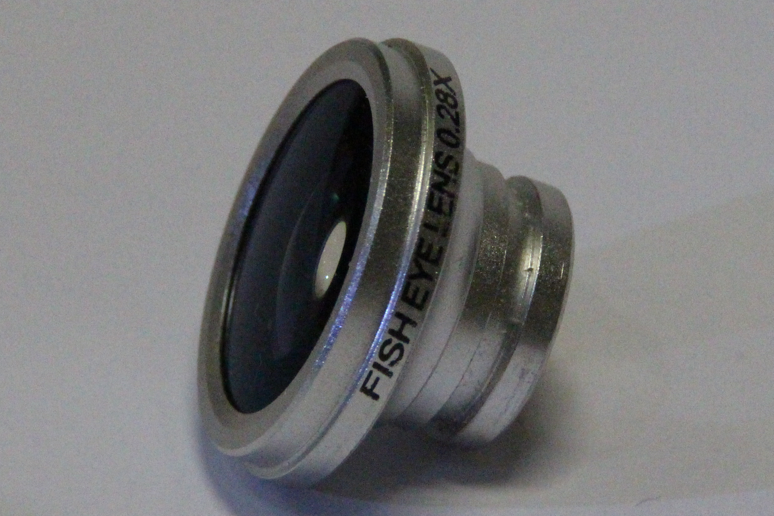 Magnetic detachable fisheye, conversion lens 0.53x for mobile phone. Magnification 0.53 (solid angle magnification 0.28), field of view close 180 deg. Example photo